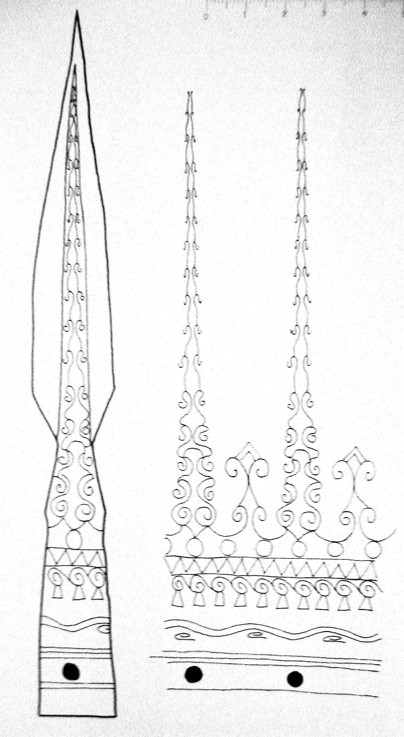 Spearhead embossed in silver.